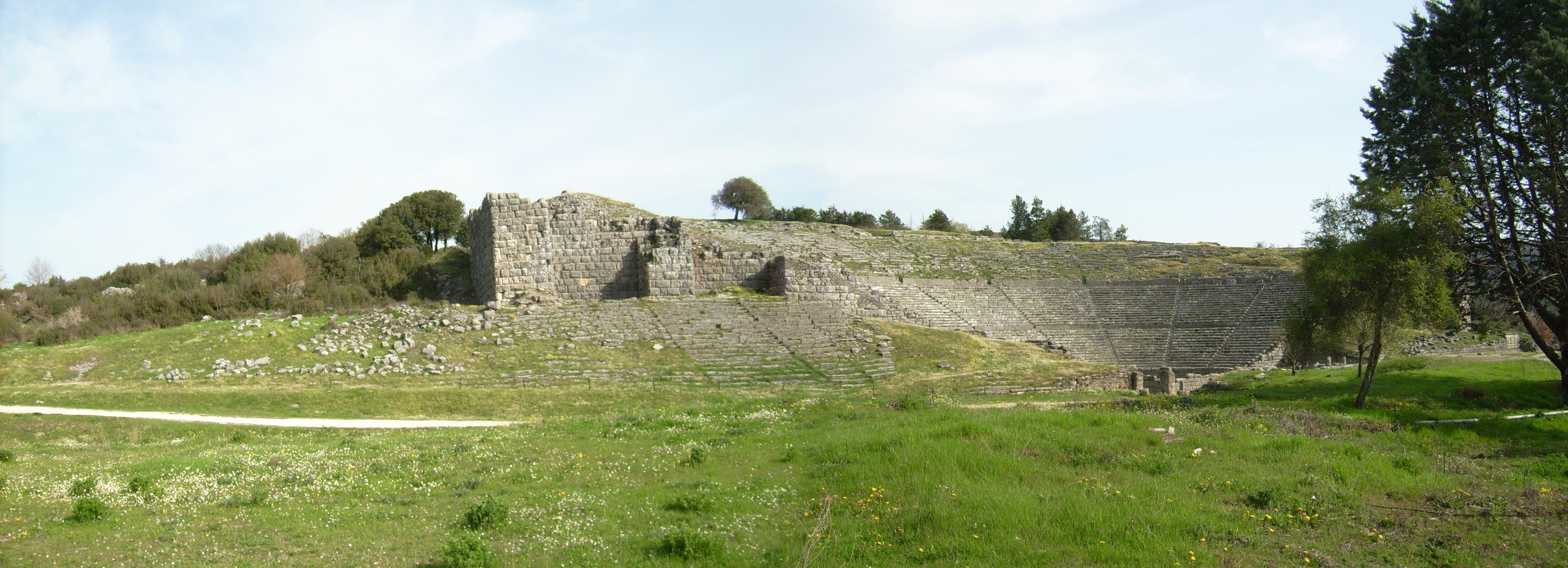 Oracle of Zeus at Dodona - exact discription follows nearby